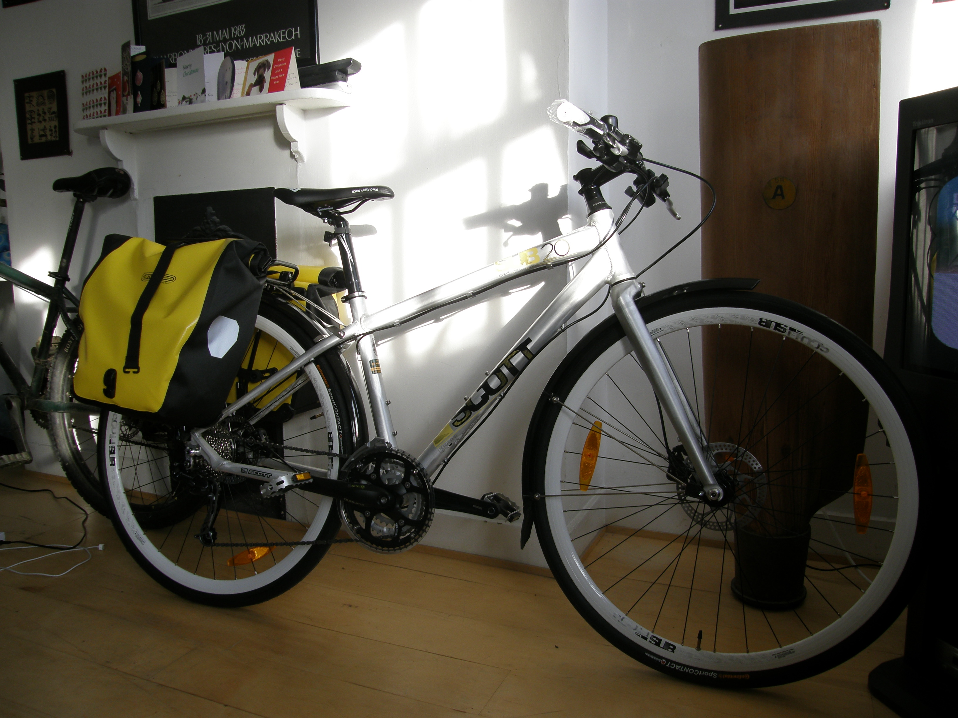 Scott Sub 20 for some serious touring.